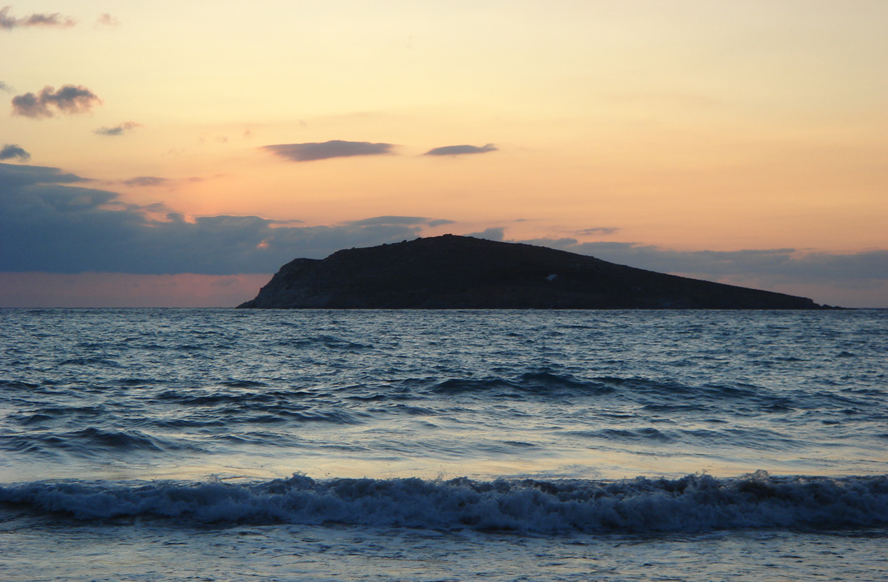 Agia Kyriaki Island, photo from Kantouni, Kalymnos